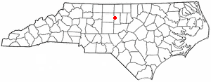 Category:North Carolina Dot Maps